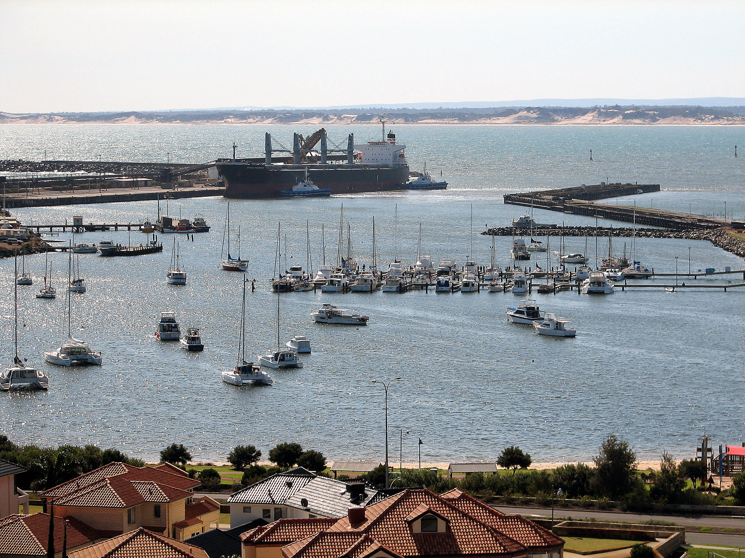 A western facing view of the harbour of Bunbury, Western Australia, from the lookout tower, August 2007